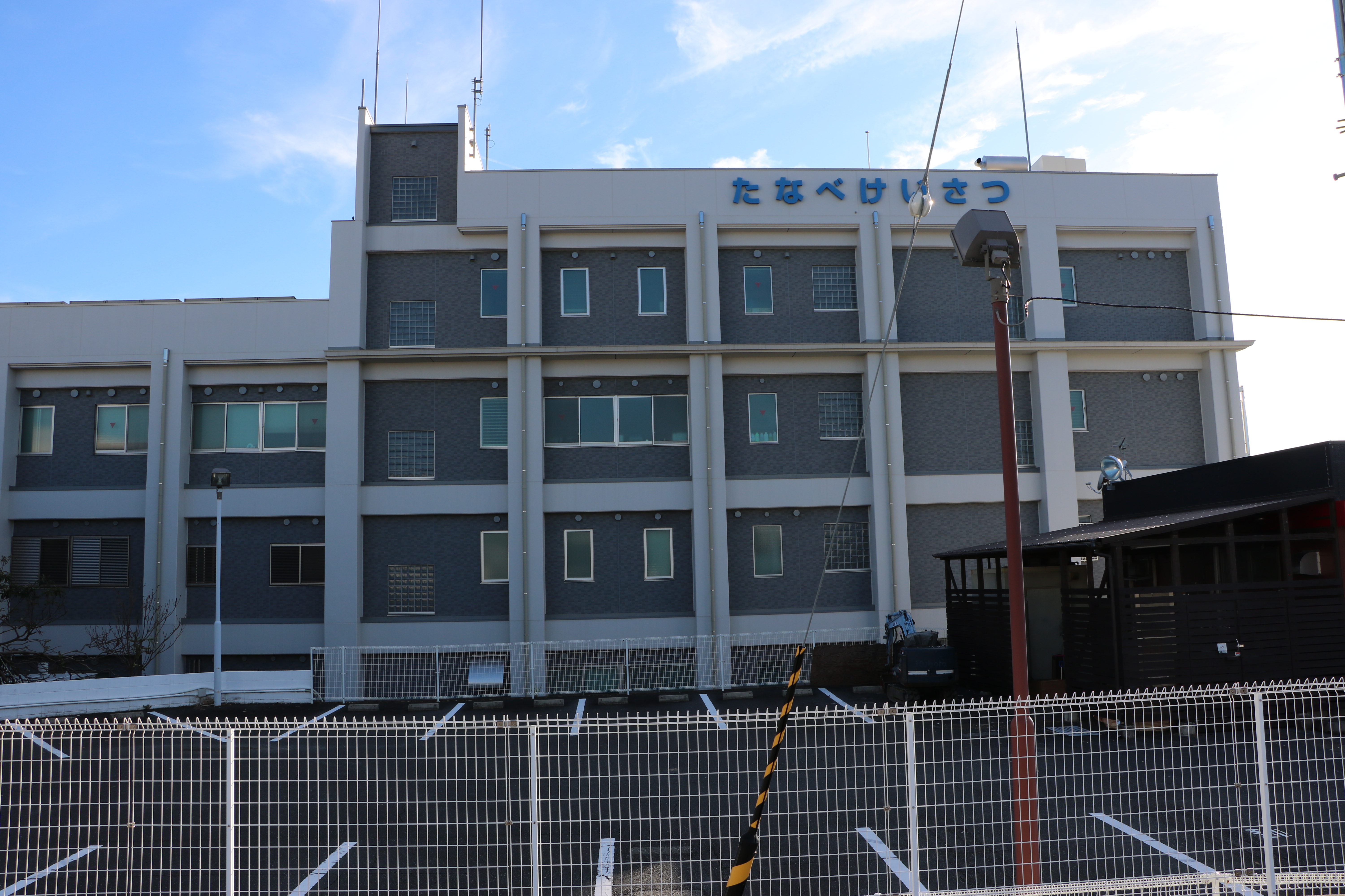 Tanabe Police Station